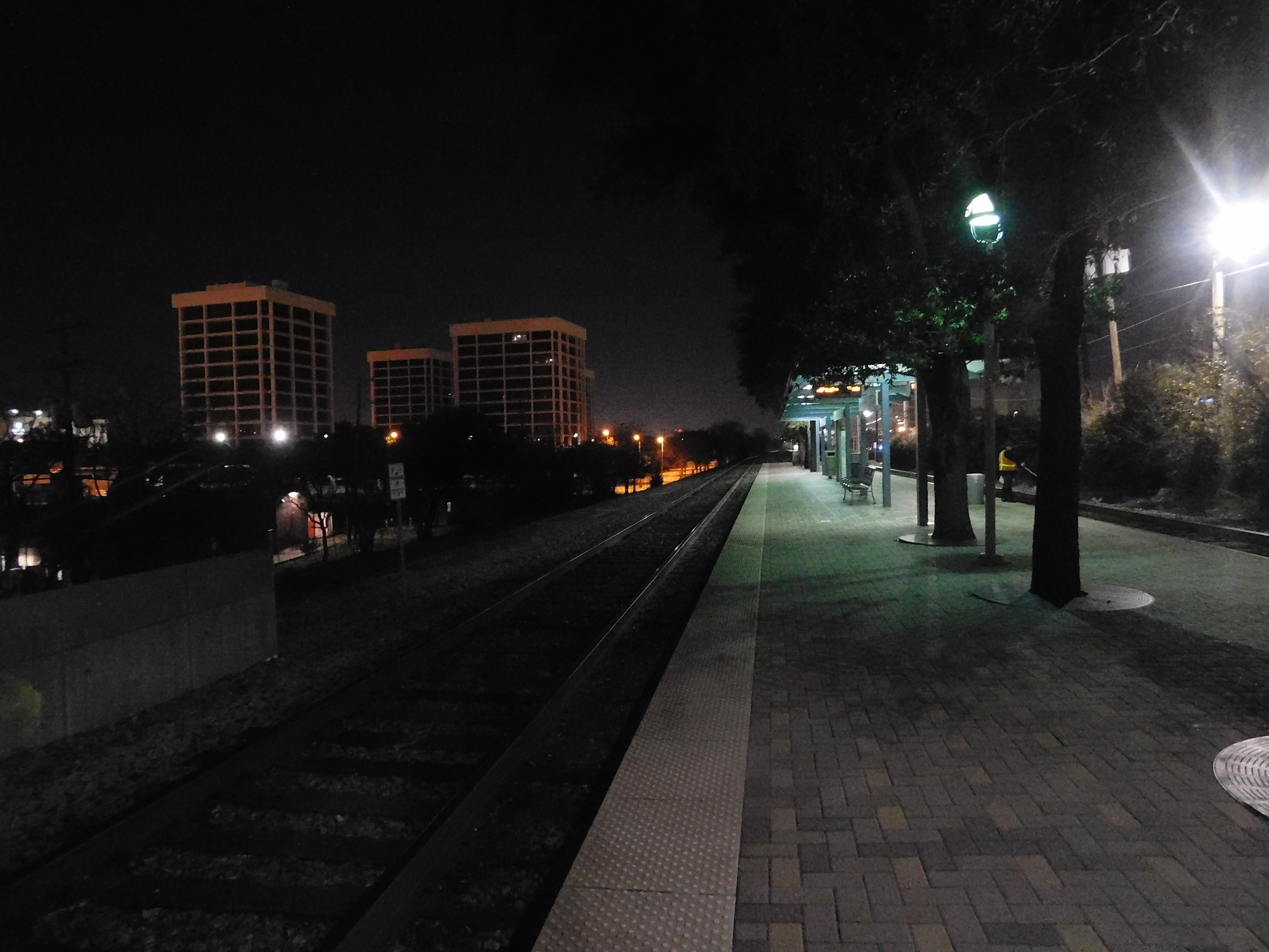 The Medical/Market Center station for Trinity Railway Express in February 2017.